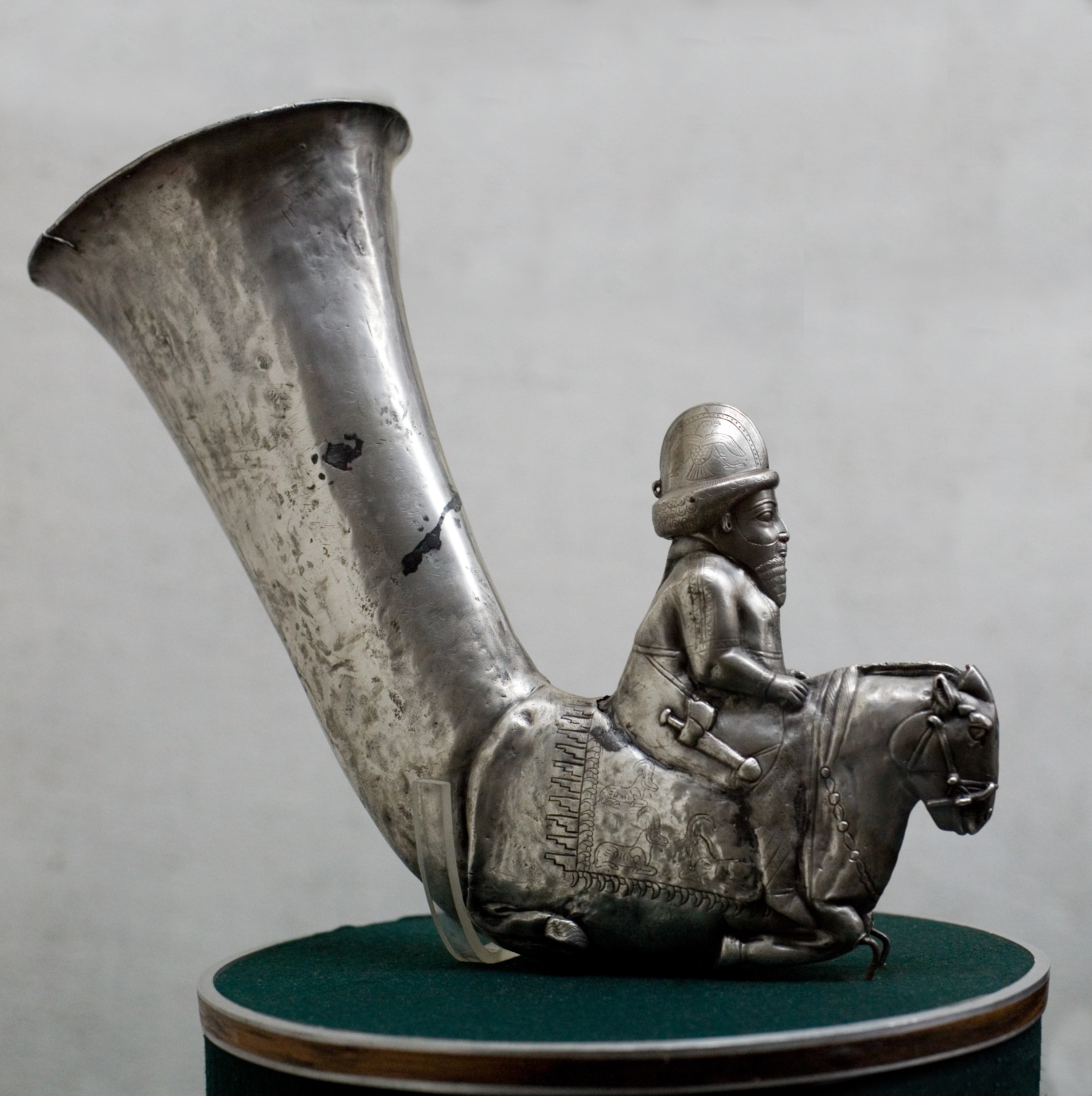 Achaemenid Silver Goblet found near Arin-Berd